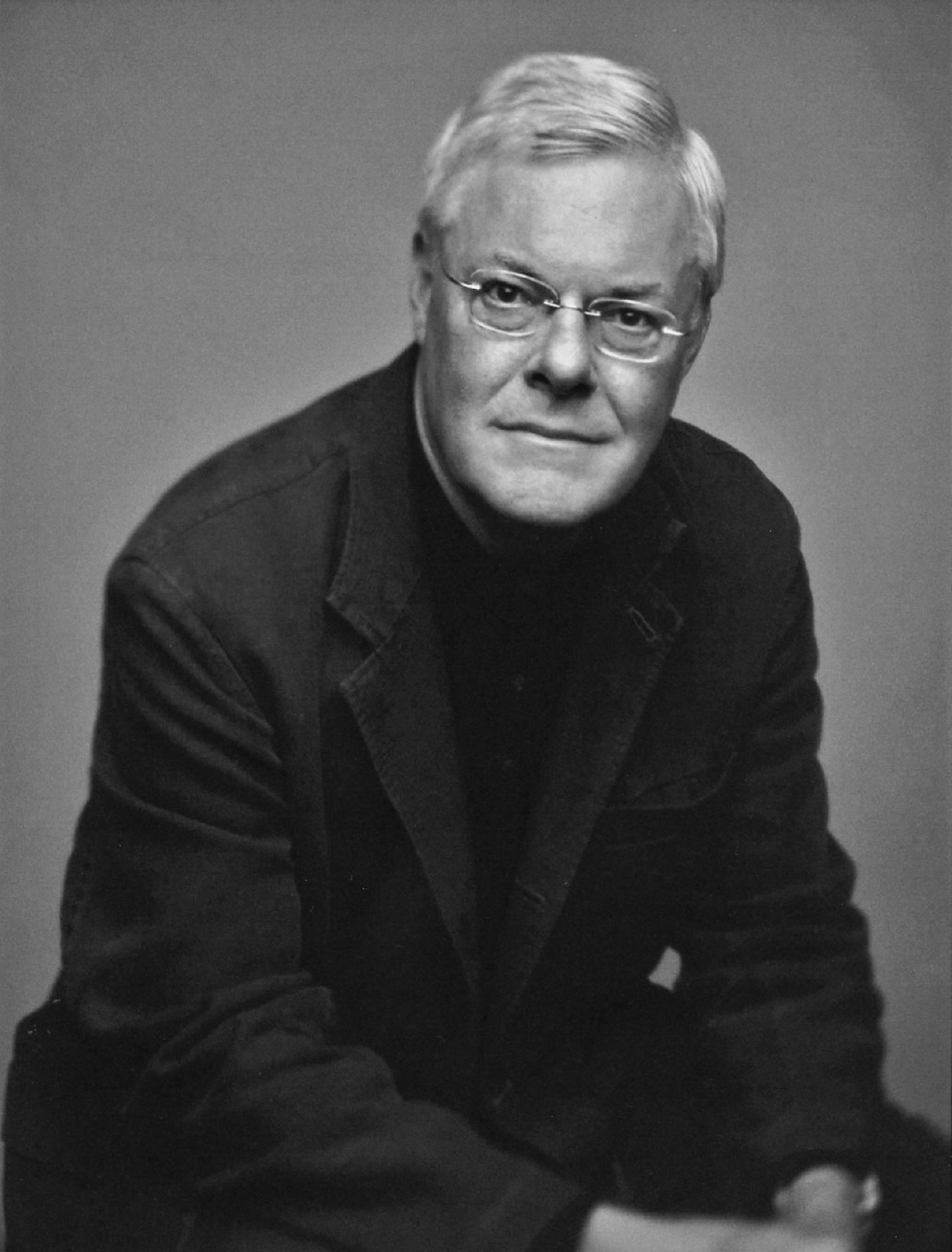 Publicity still shot of the author.